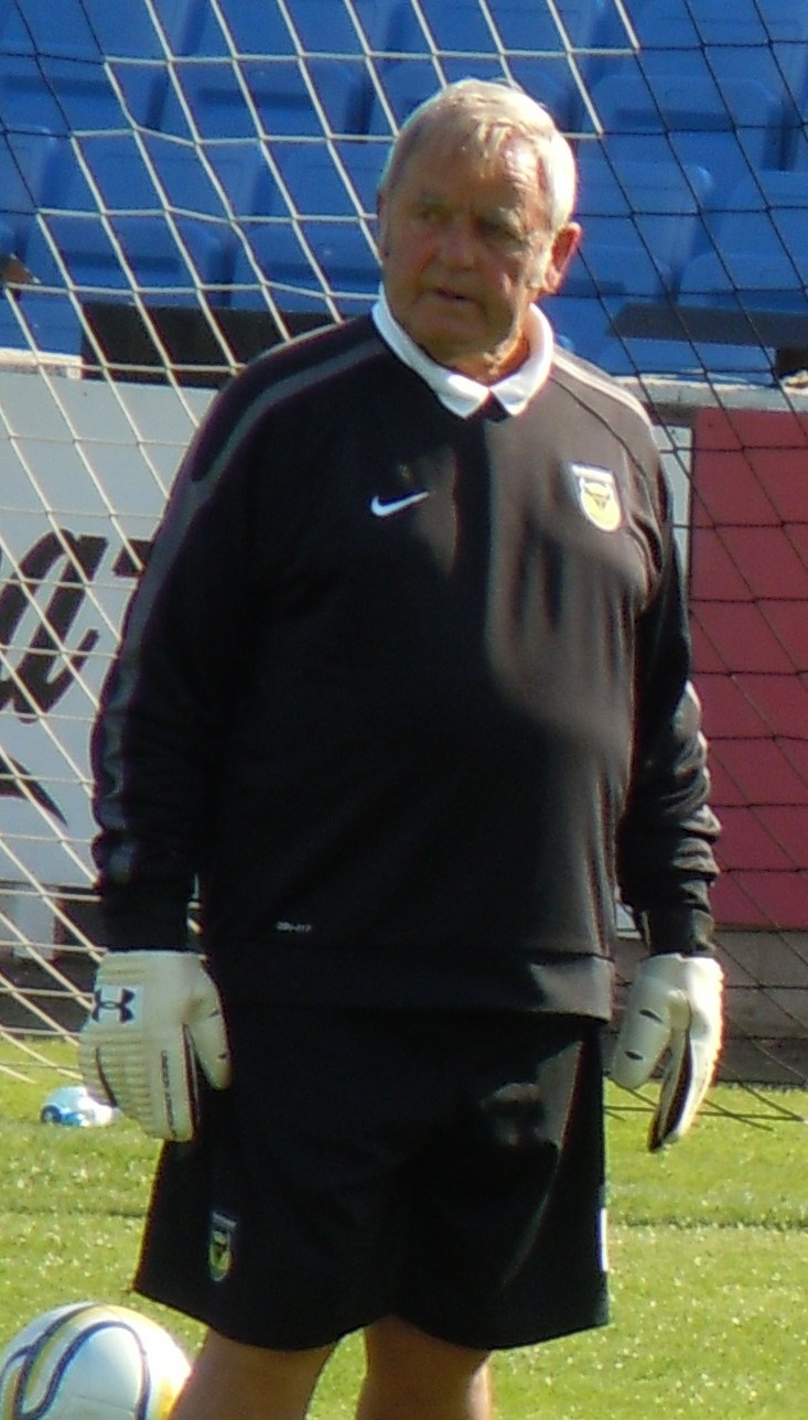 Alan Hodgkinson. Image cropped from original at flickr.